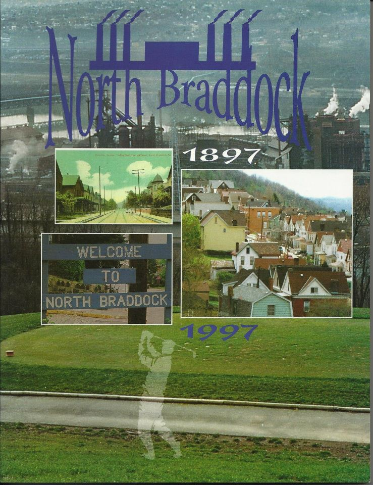 North Braddock Borough celebrated 100 years in June 1997. The community celebration was held for all local residents to enjoy the milestone.